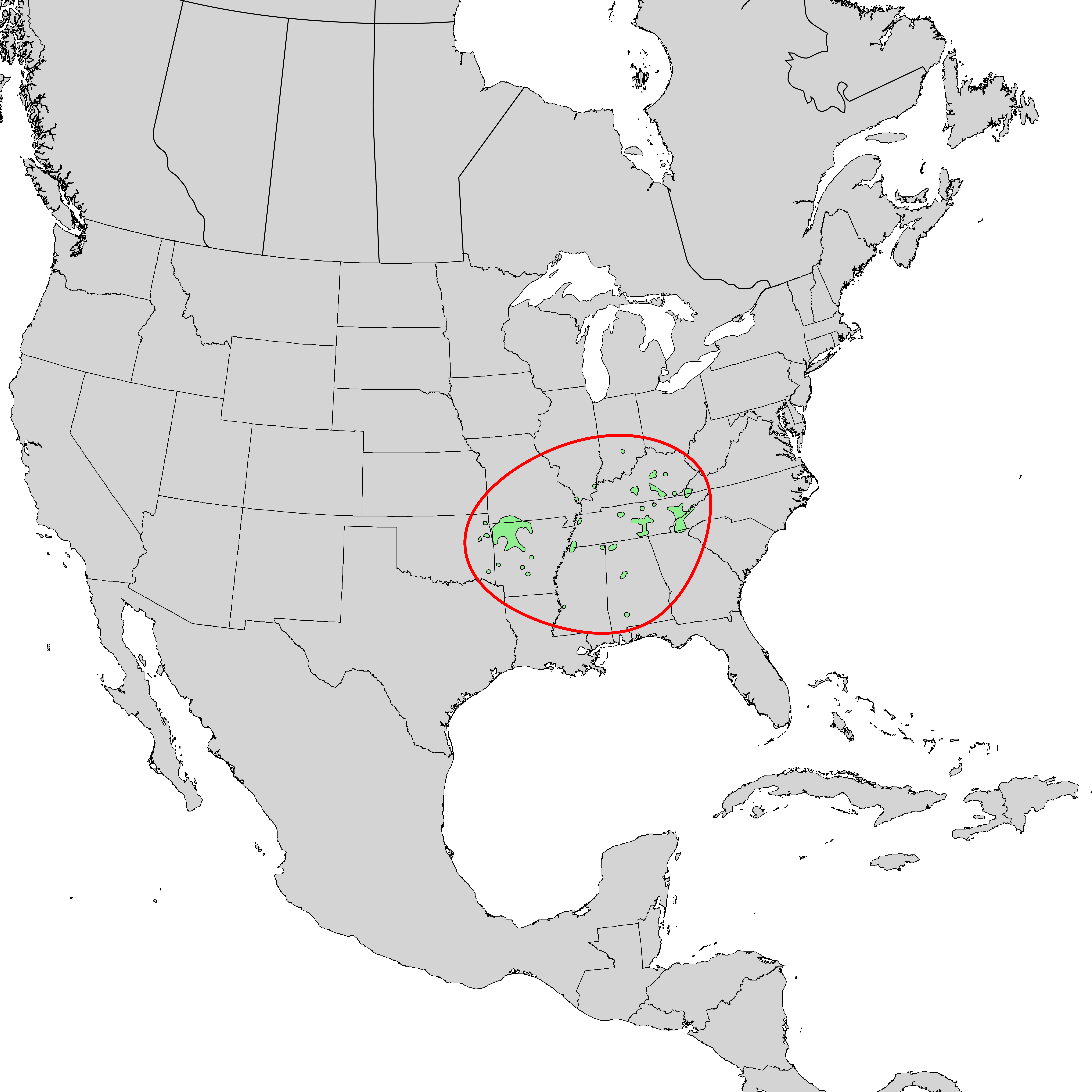 Natural distribution map for Cladrastis kentukea (yellowwood)